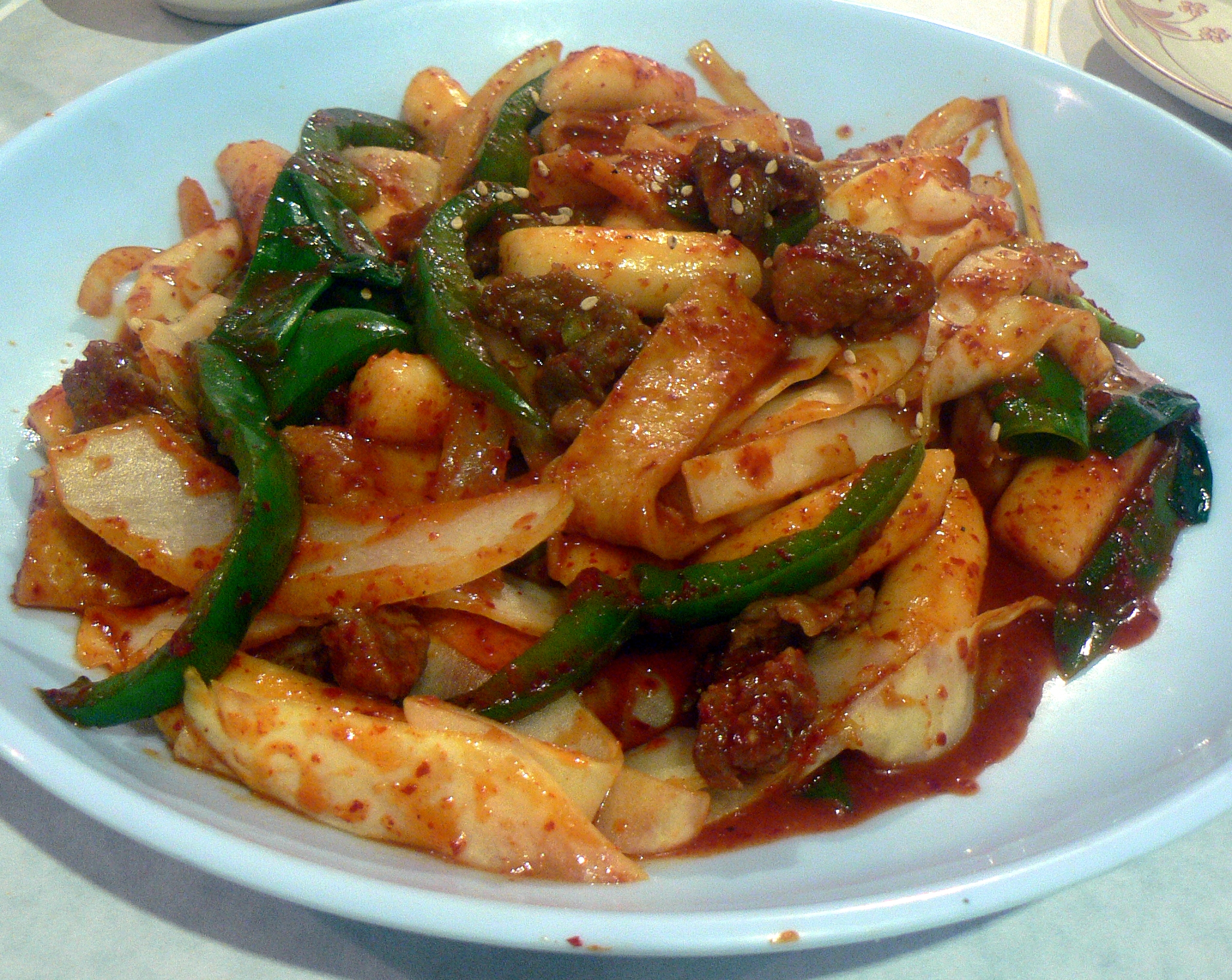 Tteokbokki, Korean spicy rice cake.